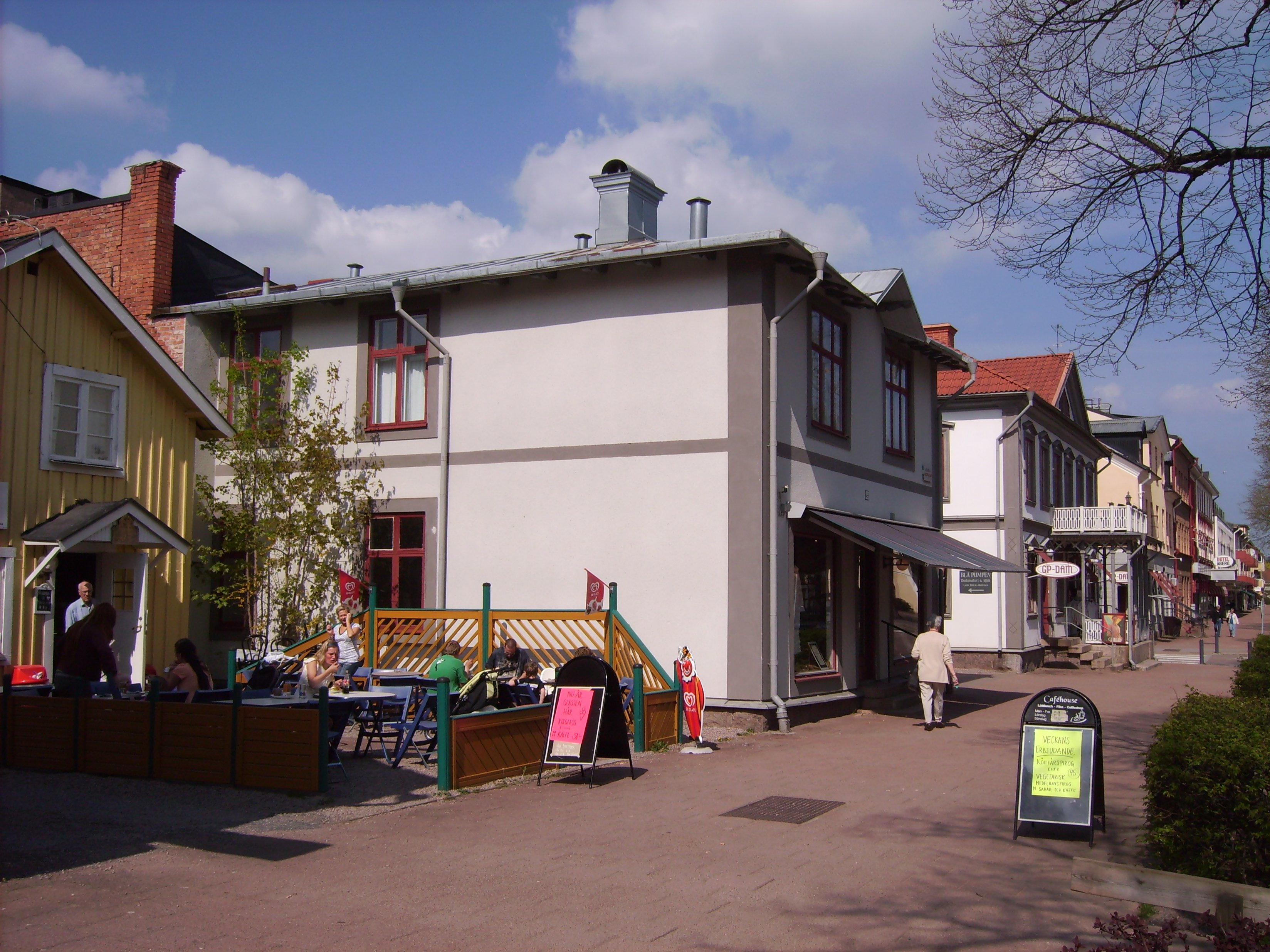 Photo by Harri Blomberg.